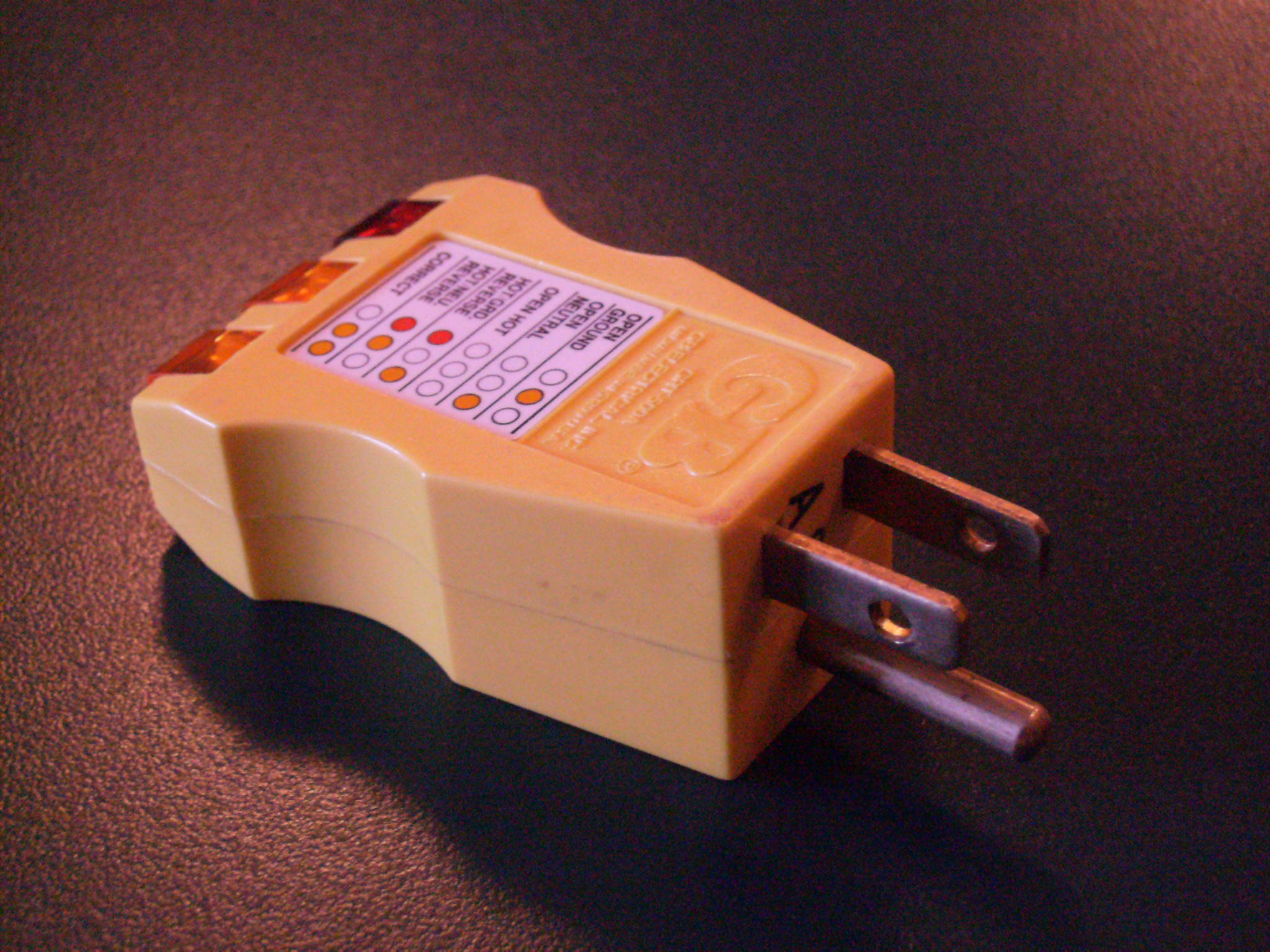 A tester which verifies that the wires of an outlet are properly hooked up.